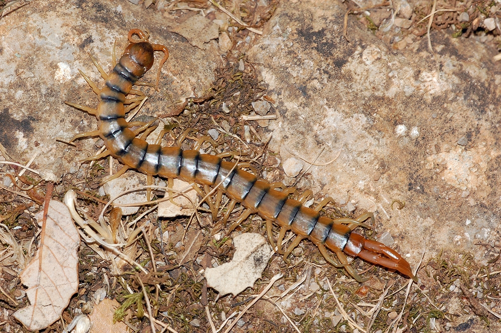 Centipede Scolopendra cingulata, Frouzet, Languedoc-Roussillon, France